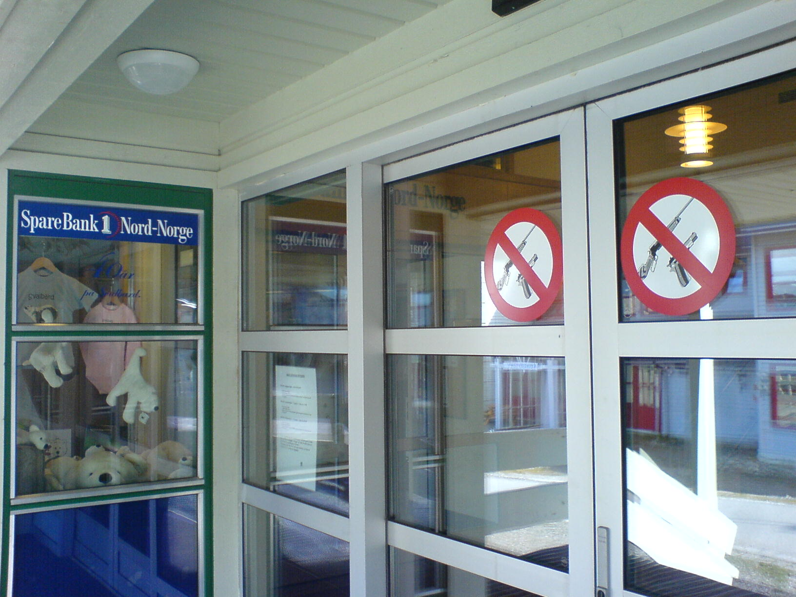 A bank in Longyearbyen, Svalbard (Spitsbergen); Carrying arms is required on svalbard outside towns due to polar bears, but here signs say that it is not allowed to carry them into the bank